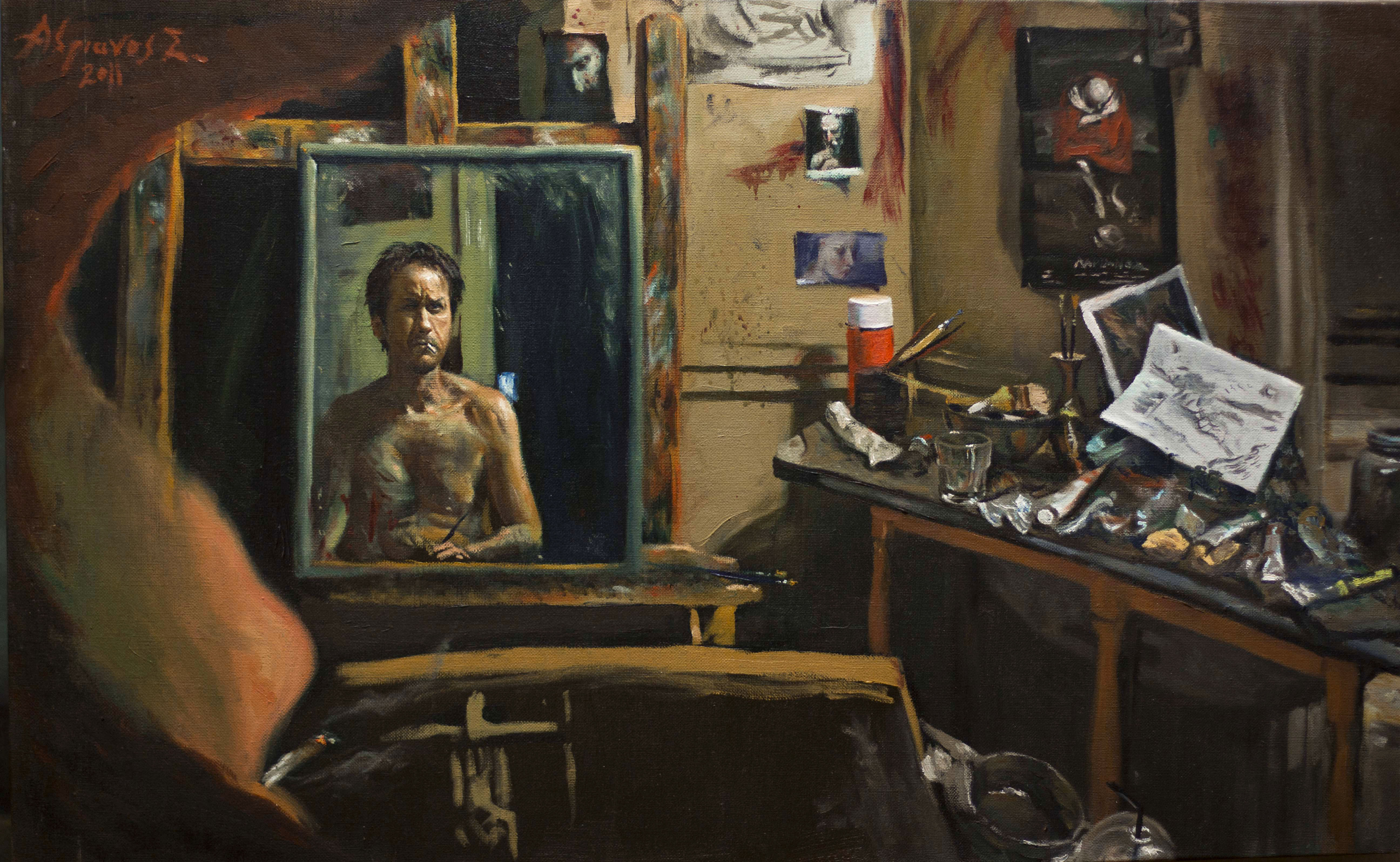 Artists selfportrait in his studio, re-inventing the way to see the world through the eyes. The first selfportrait where the artist includes his Nose into the painting and real space.